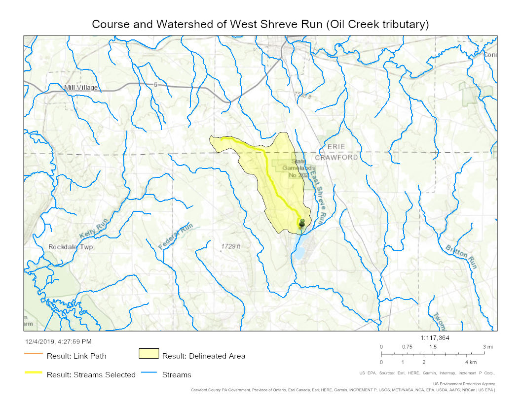 Map of the course and watershed of West Shreve Run (Oil Creek tributary) in Crawford and Erie Counties, Pennsylvania.